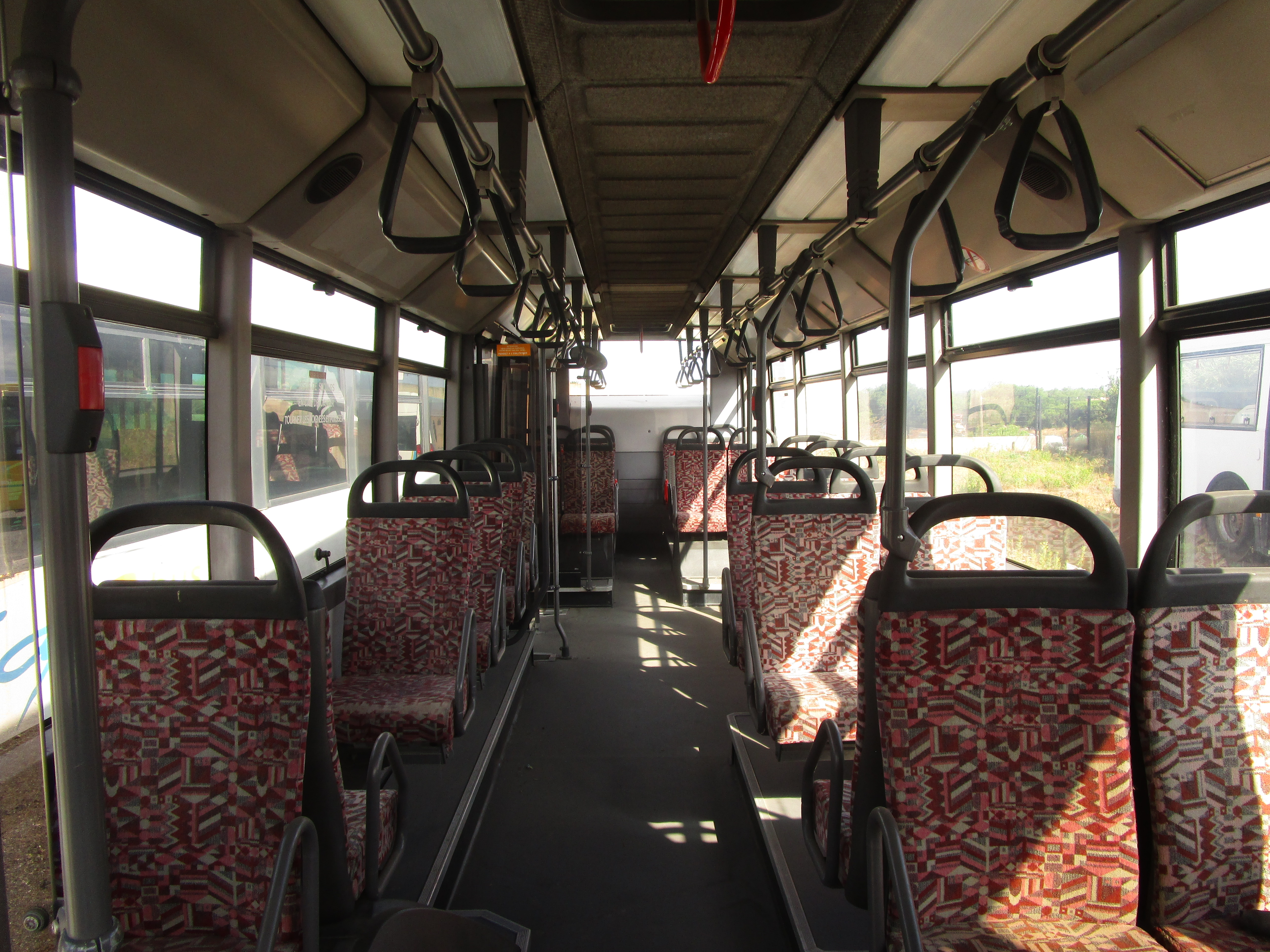 The interior of a Renault R312 (n°654 of CarPostal Interurbain).